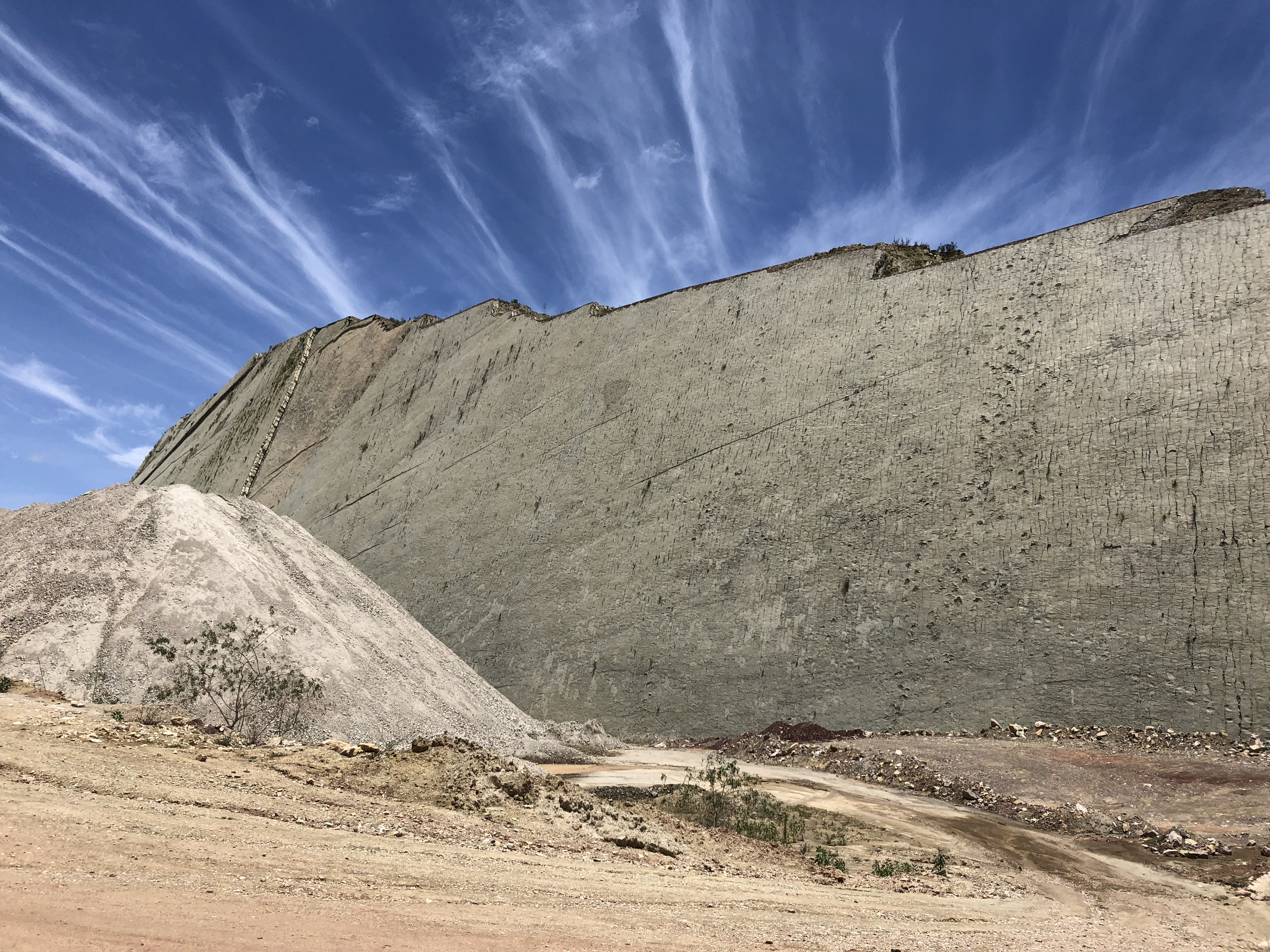 Wide depiction of dinosaur footprints on the Cal Orcko paleontological site in Bolivia